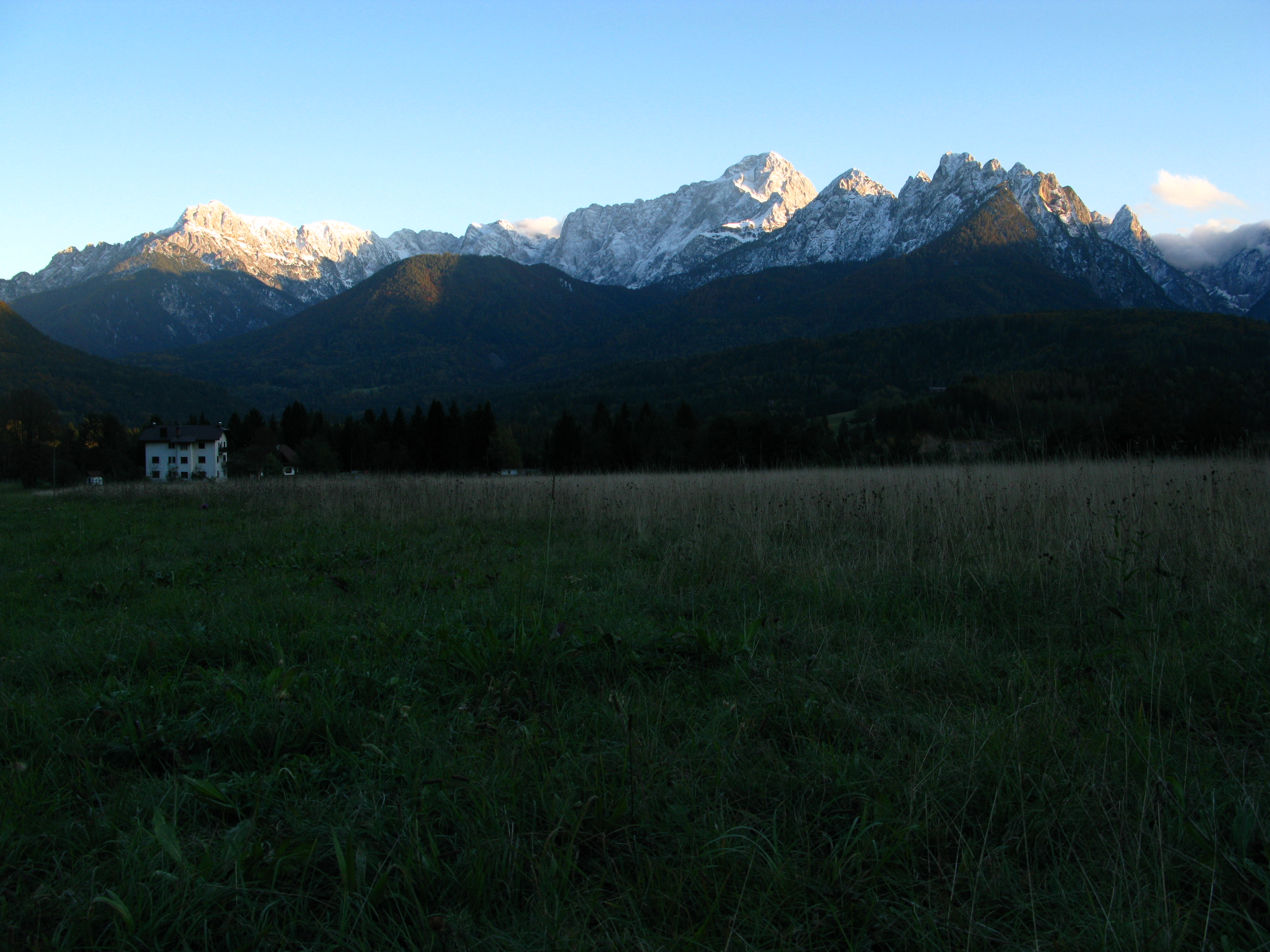 The field of Coccau in Coccau di Sopra, community Tarvisio in Friuli-Venezia Giulia / Italy / EU. In the background the Julian Alps.